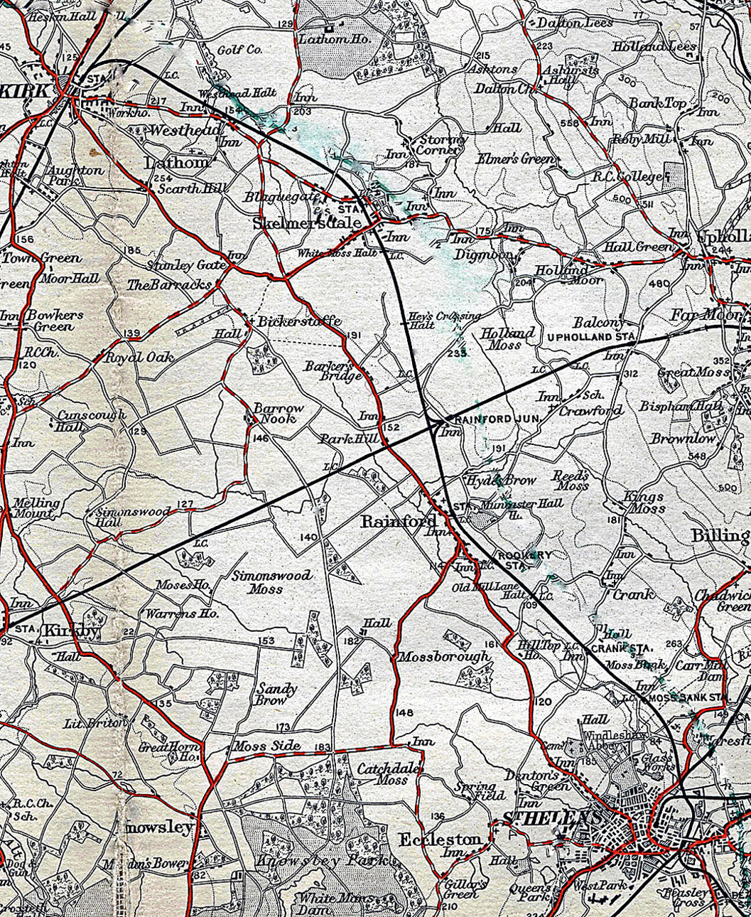 1911 Map showing railways in the Ormskirk, Skelmersdale and St Helens area